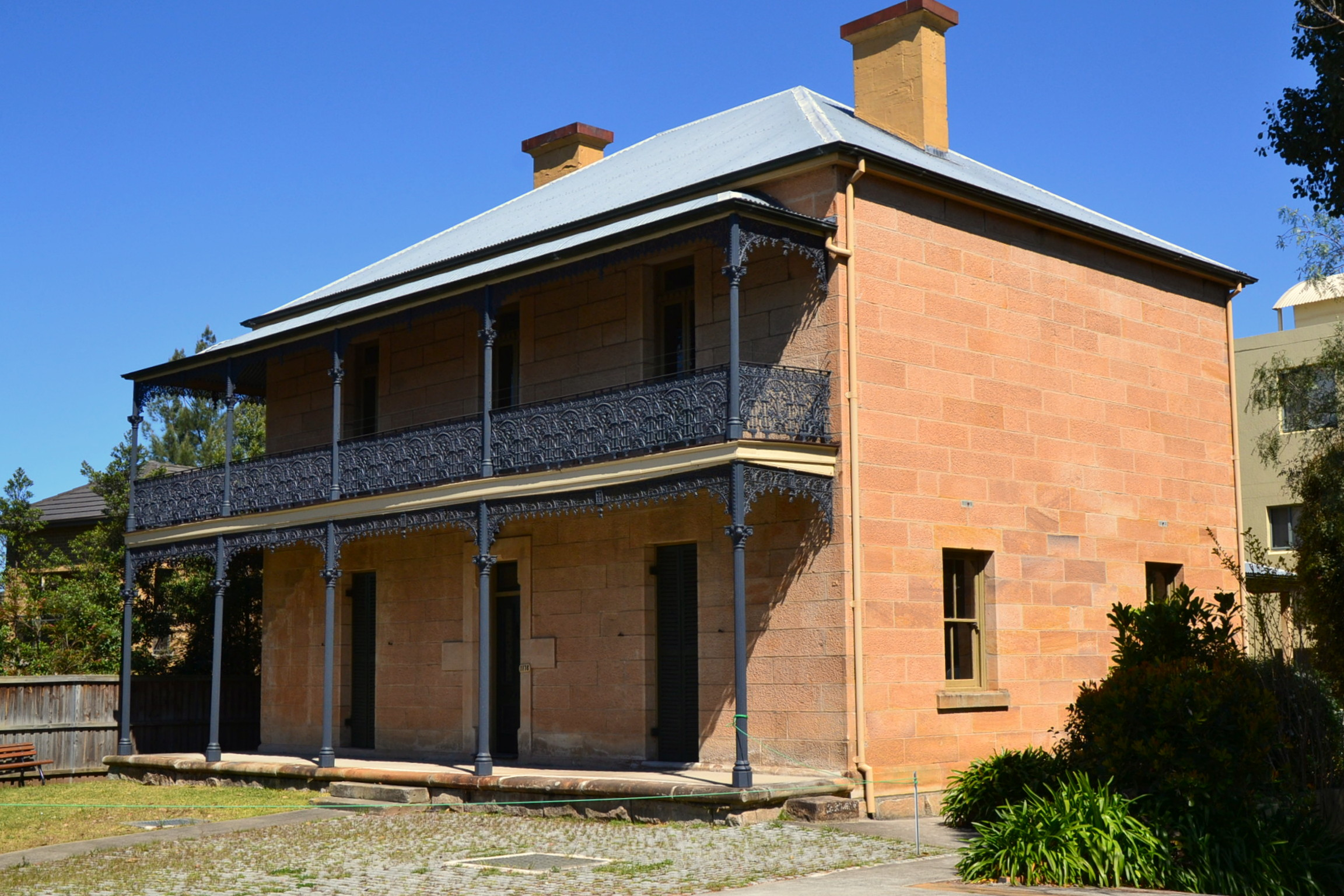 Grandview, Pymble, Sydney